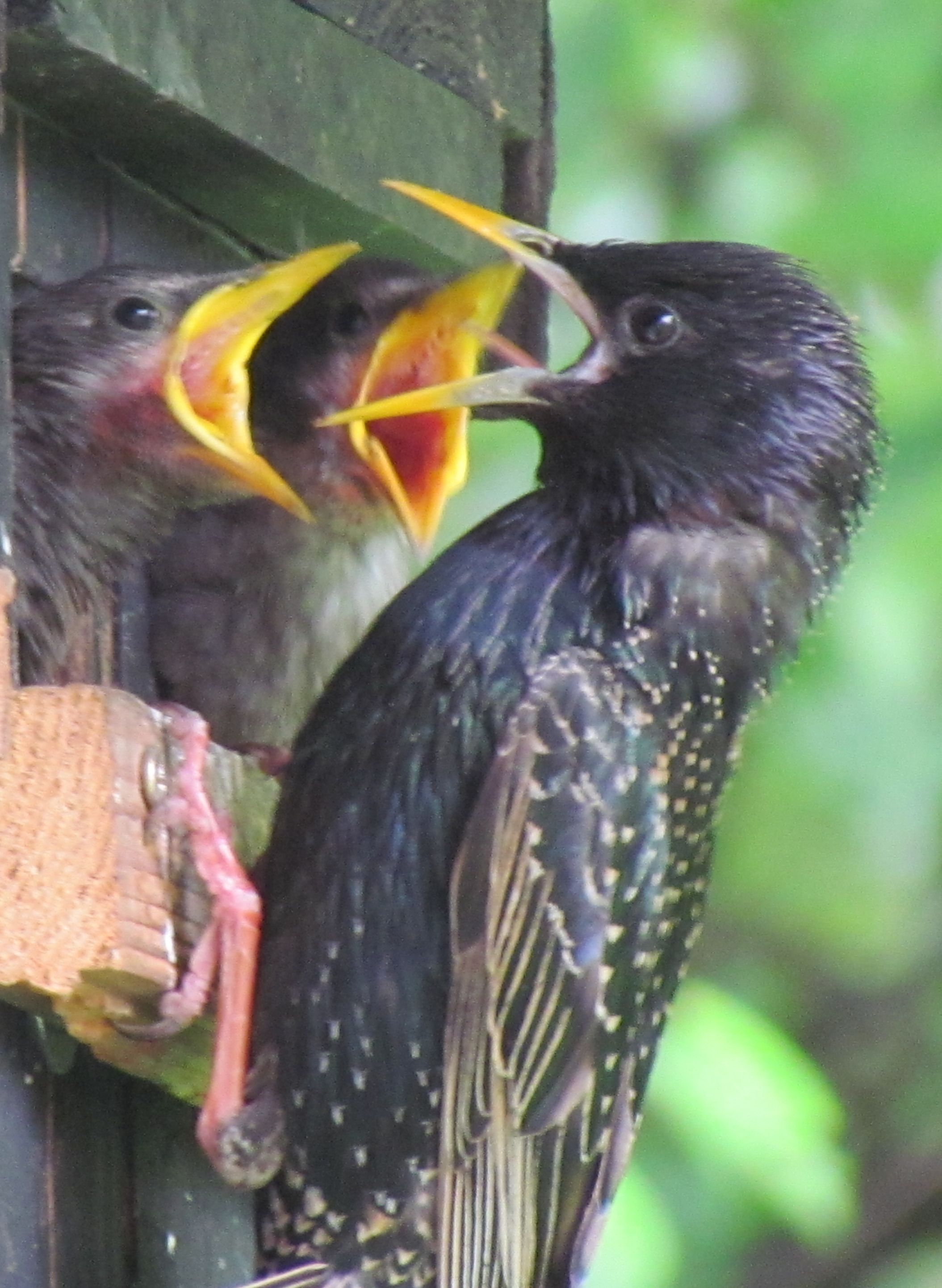 Starling feeding offspring; Hannover, Germany